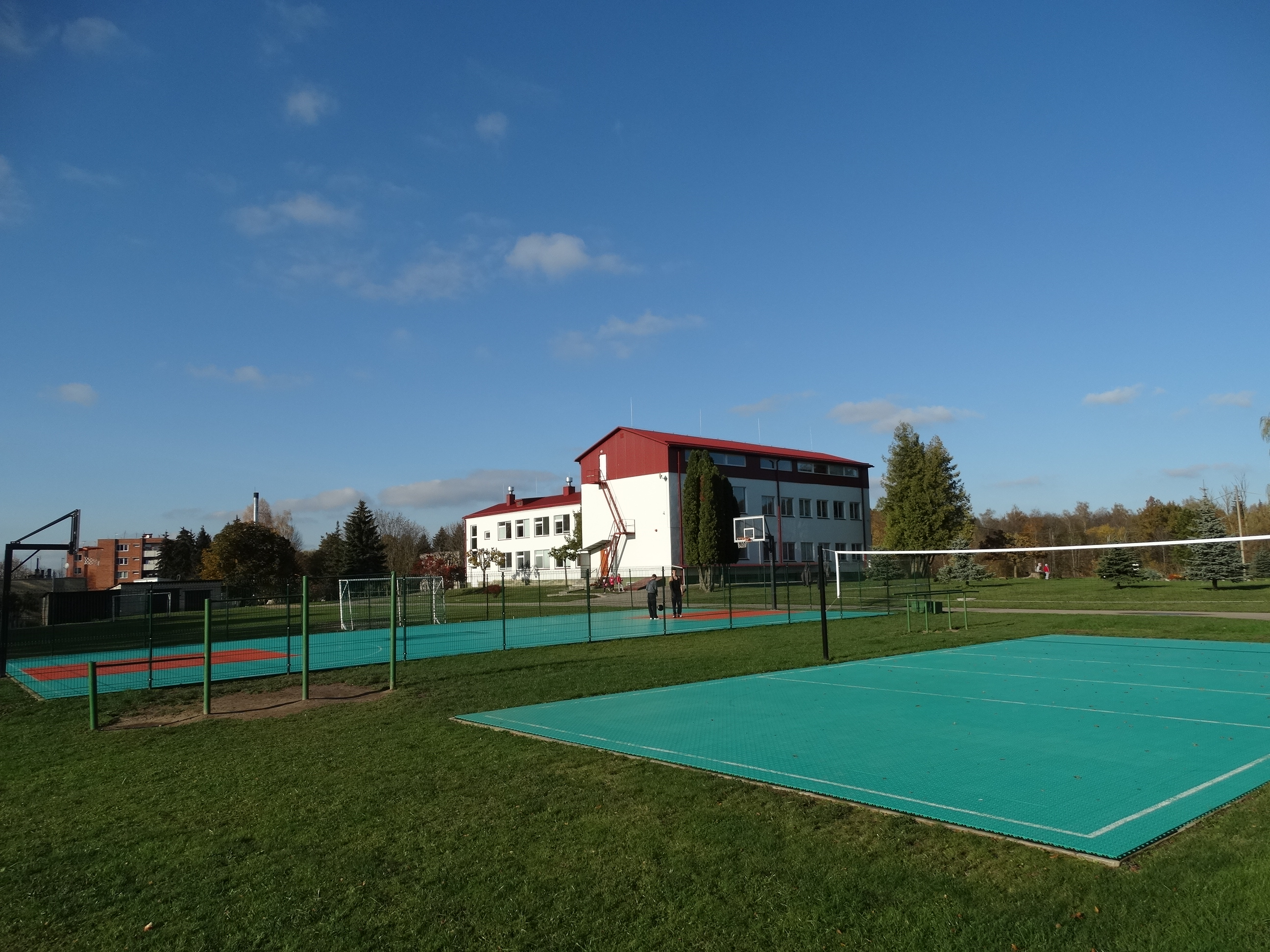 Želsva, school, Marijampolė municipality, Lithuania